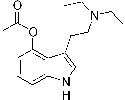 chemical structure of 4-acetoxydiethyltryptamine created with chemdraw